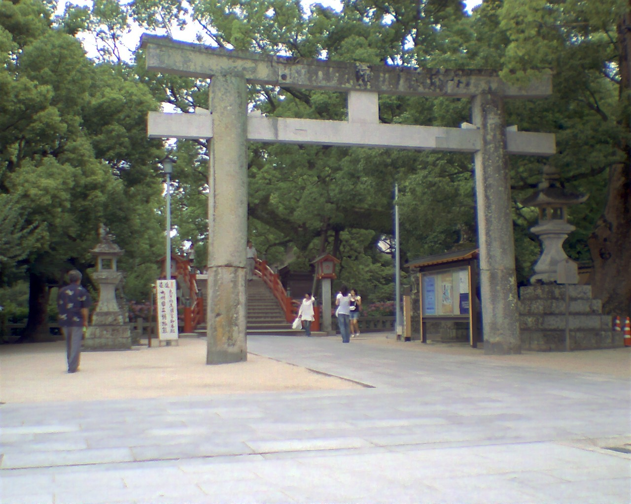 This photograph is a Torii and the pilgrimage route on the Dazaifu Tenman-gū, Dazaifu city, Fukuoka prefecture, Japan.